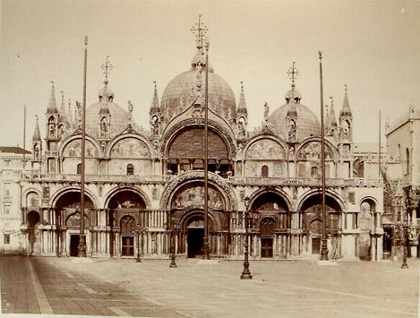 Carlo Naya (1822-1881) - Venice. Saint Mark basilica. Catalogue # 202. Dated on back: 1877.